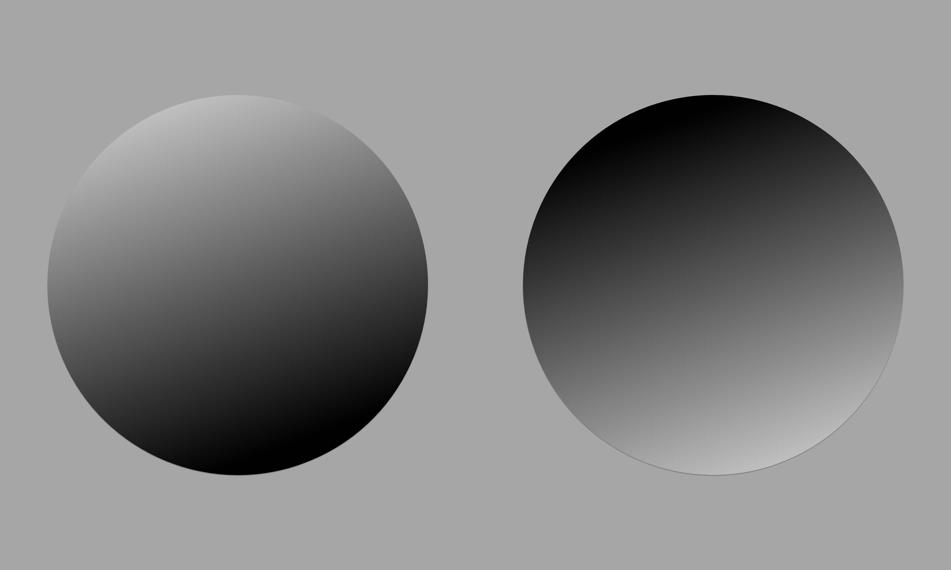 Example to illustrate the 'light-from-above' prior: A circular disk that is lighter in the upper left area and darker in the lower right area is more likely to be perceived as convex (left disk). A circular disk rotated by 180° is perceived as concave (right disk).